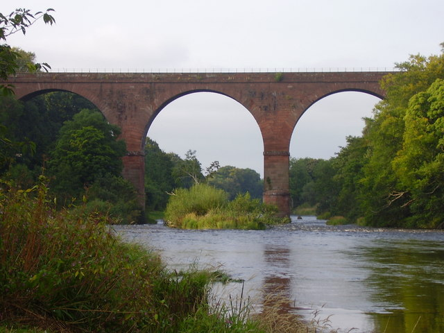 Railway bridge at Wetheral taken from the banks of the river